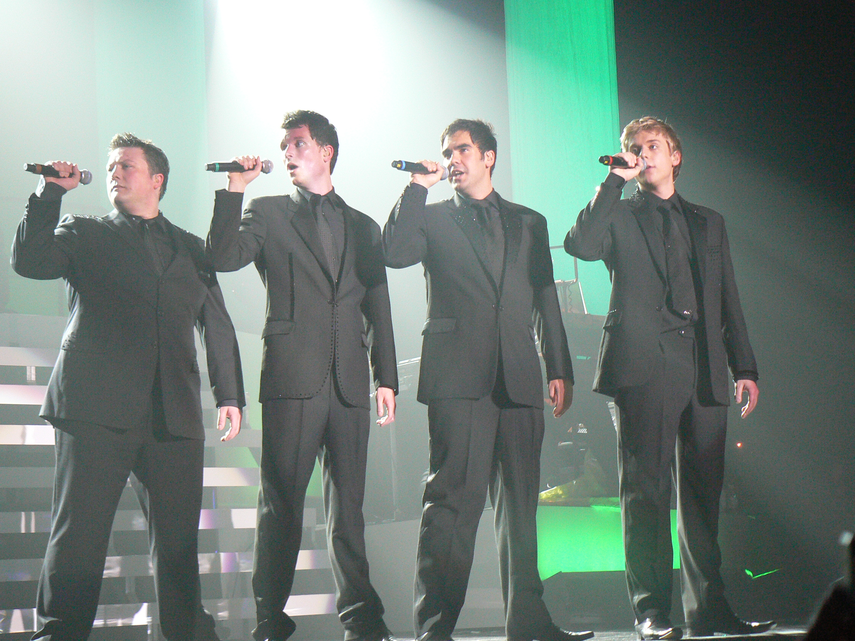 G4 Final Tour at Bournemouth International Centre